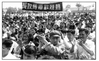 Welcome Ma Yinchu, Peking University